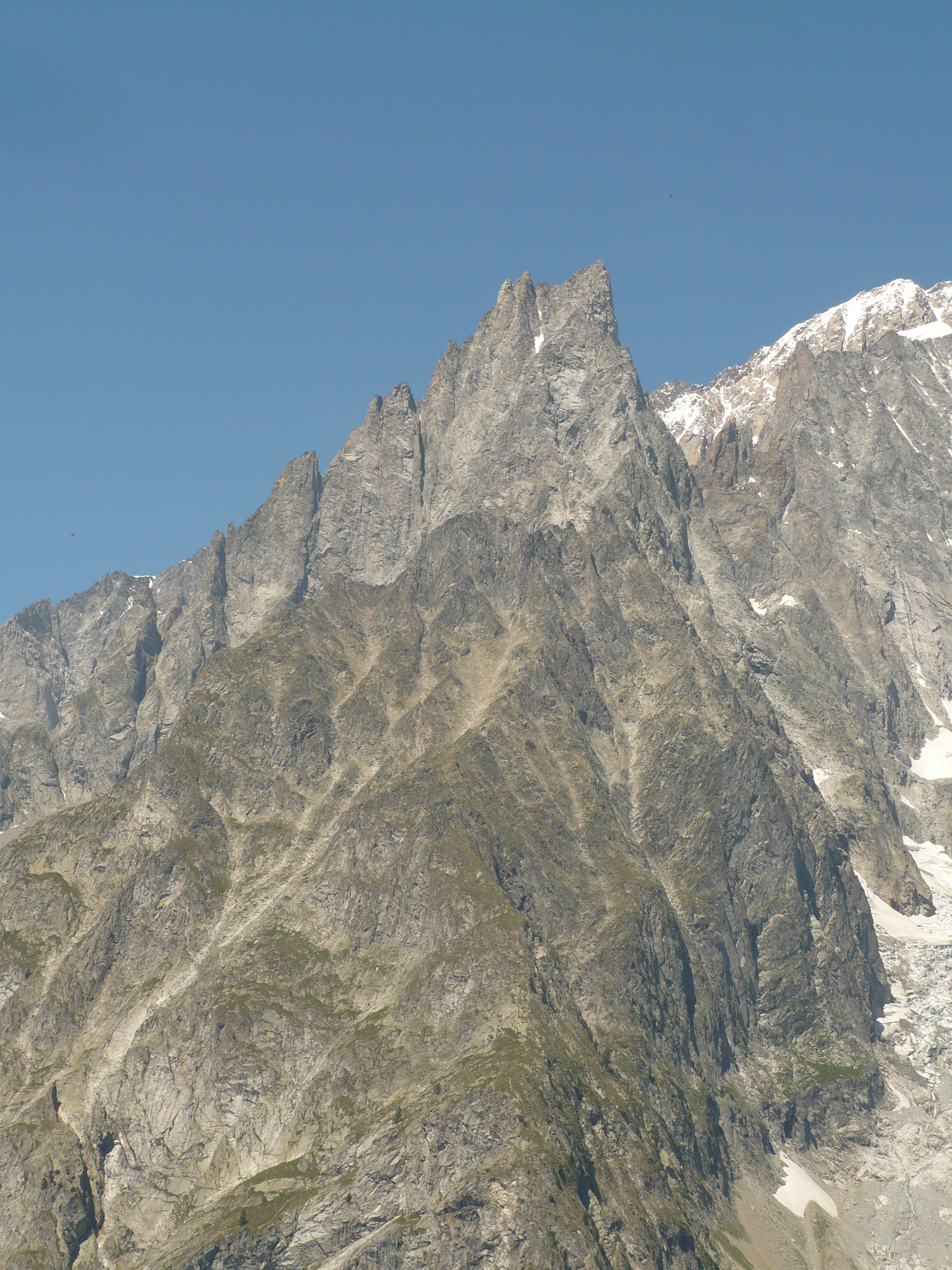 Aiguille Noire de Peuterey - Mont Blanc Massif - Aosta Valley - Italy